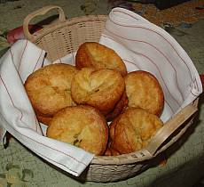 Popovers